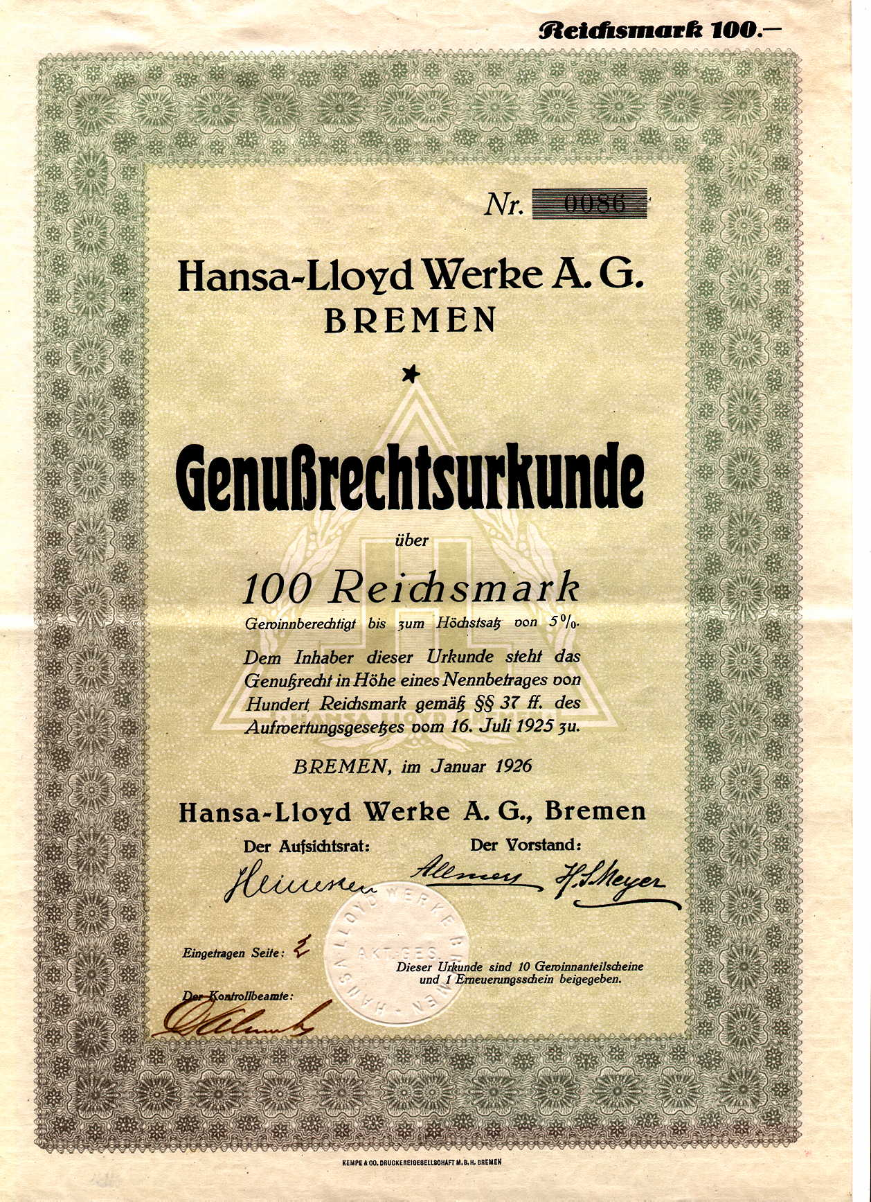 Scan from historic paper taken by user